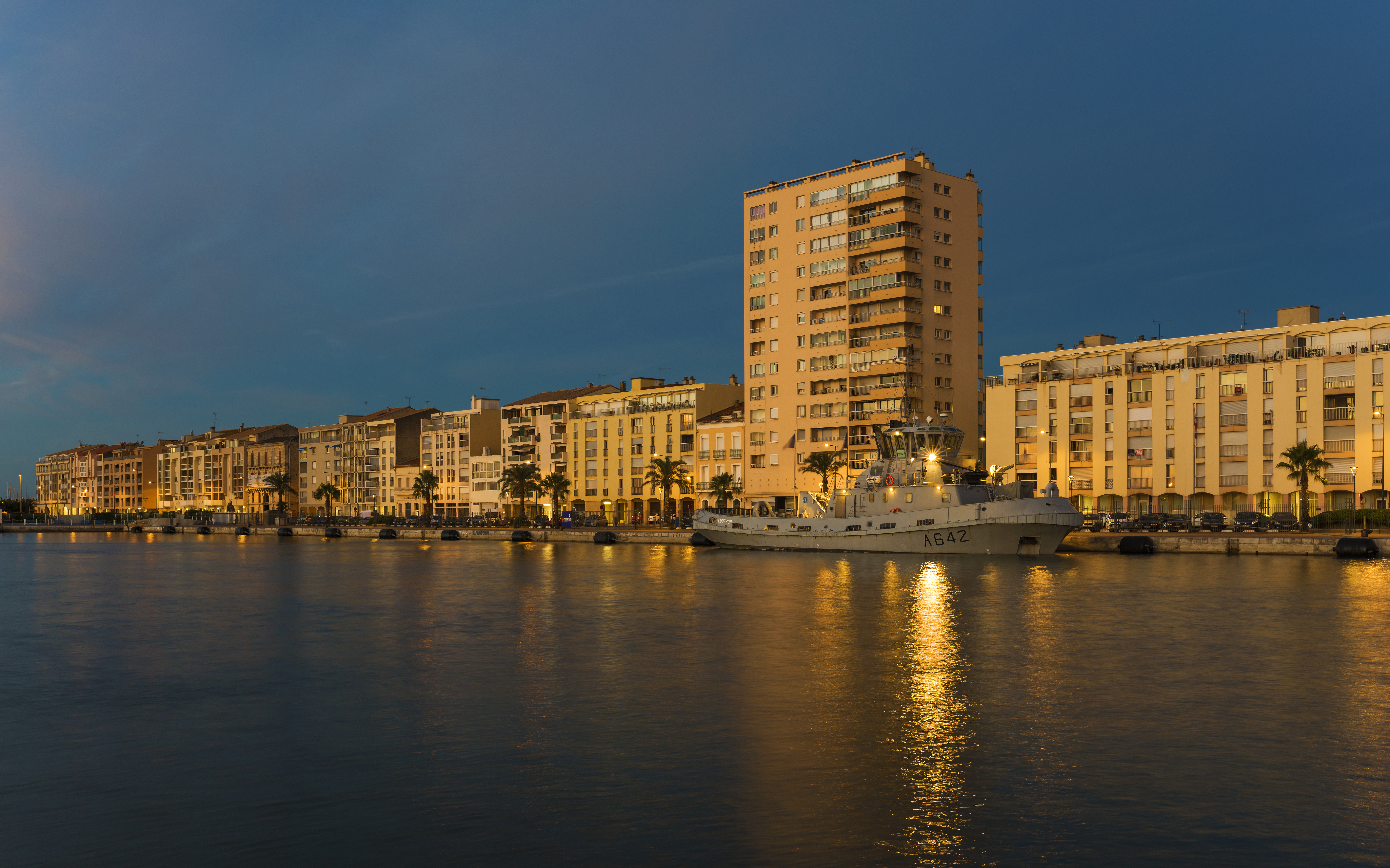 Luberon (A 642) (ship, 2002), moored at the Algiers Embankment. Sète, Hérault, France.